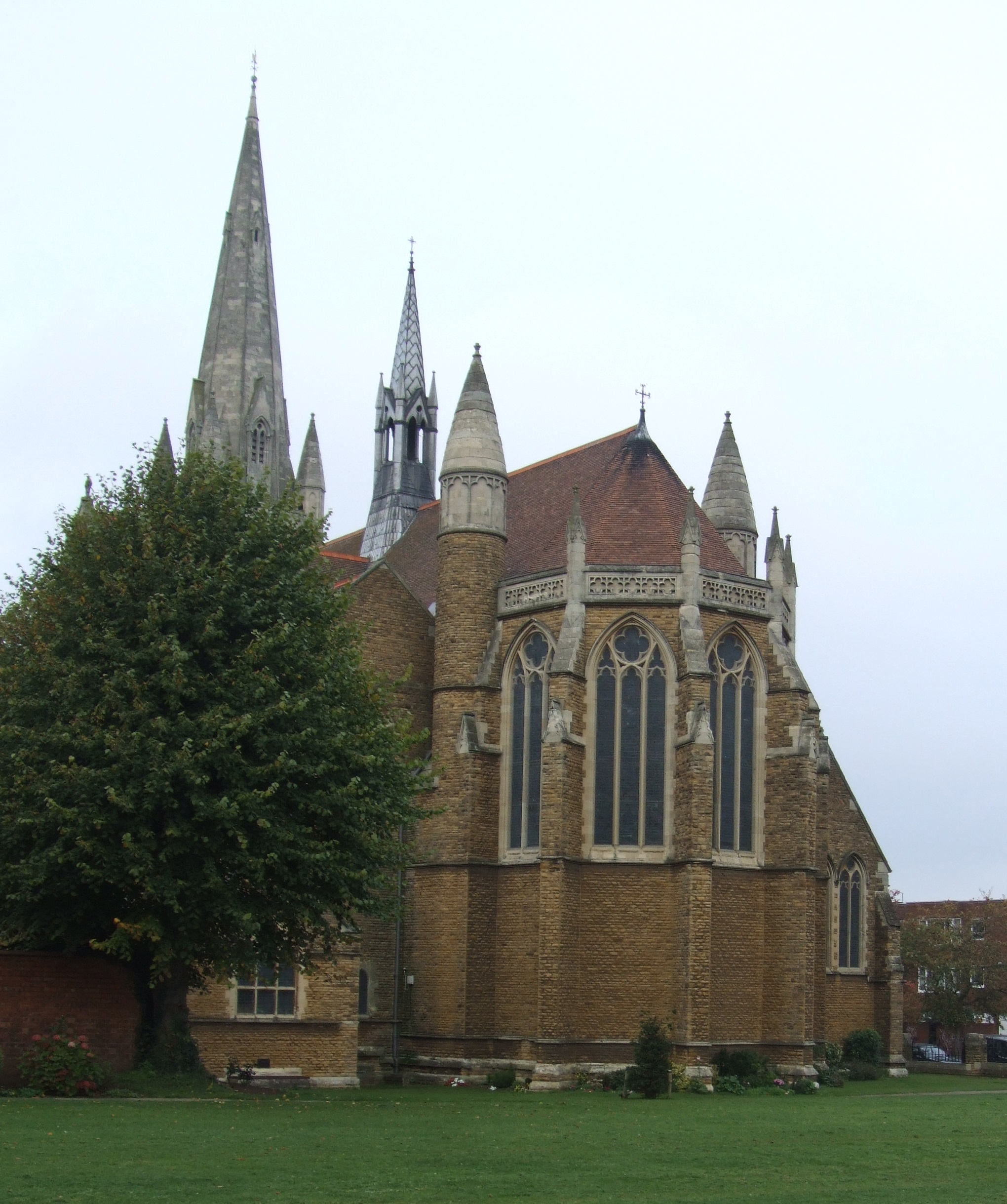 St Matthew's Church, Kettering Road, Northampton